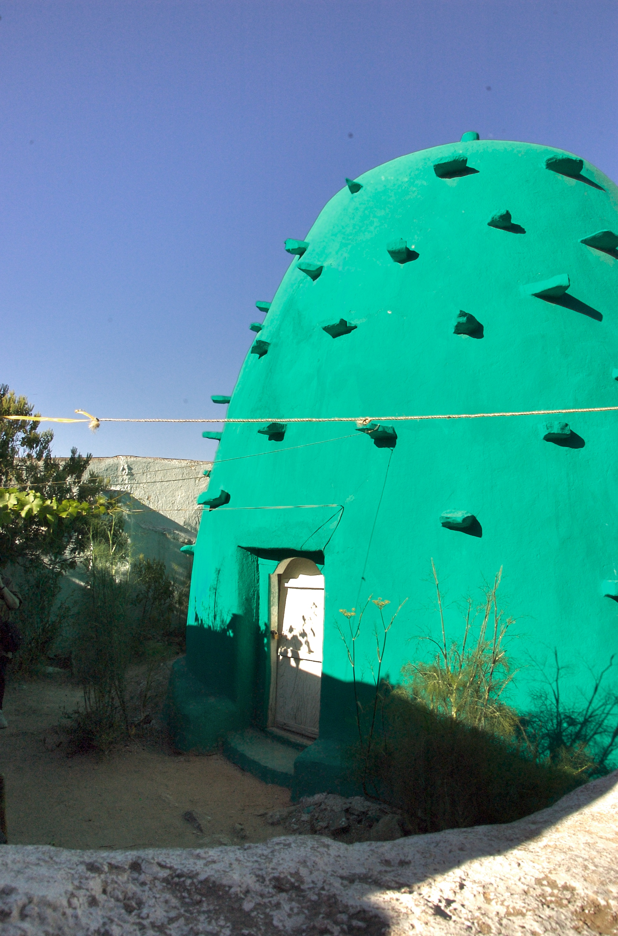 Islamic shrine.